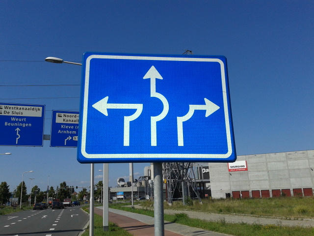 Road sign warning and informing motorists about the upcoming turbo roundabout. Location: Industrieweg, Nijmegen, Netherlands.